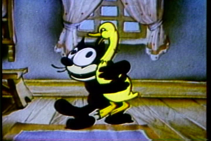 Screenshot from the Felix the Cat cartoon: The Goose That Laid the Golden Egg (1936). The cartoon was downloaded from . The copyright was not renewed.